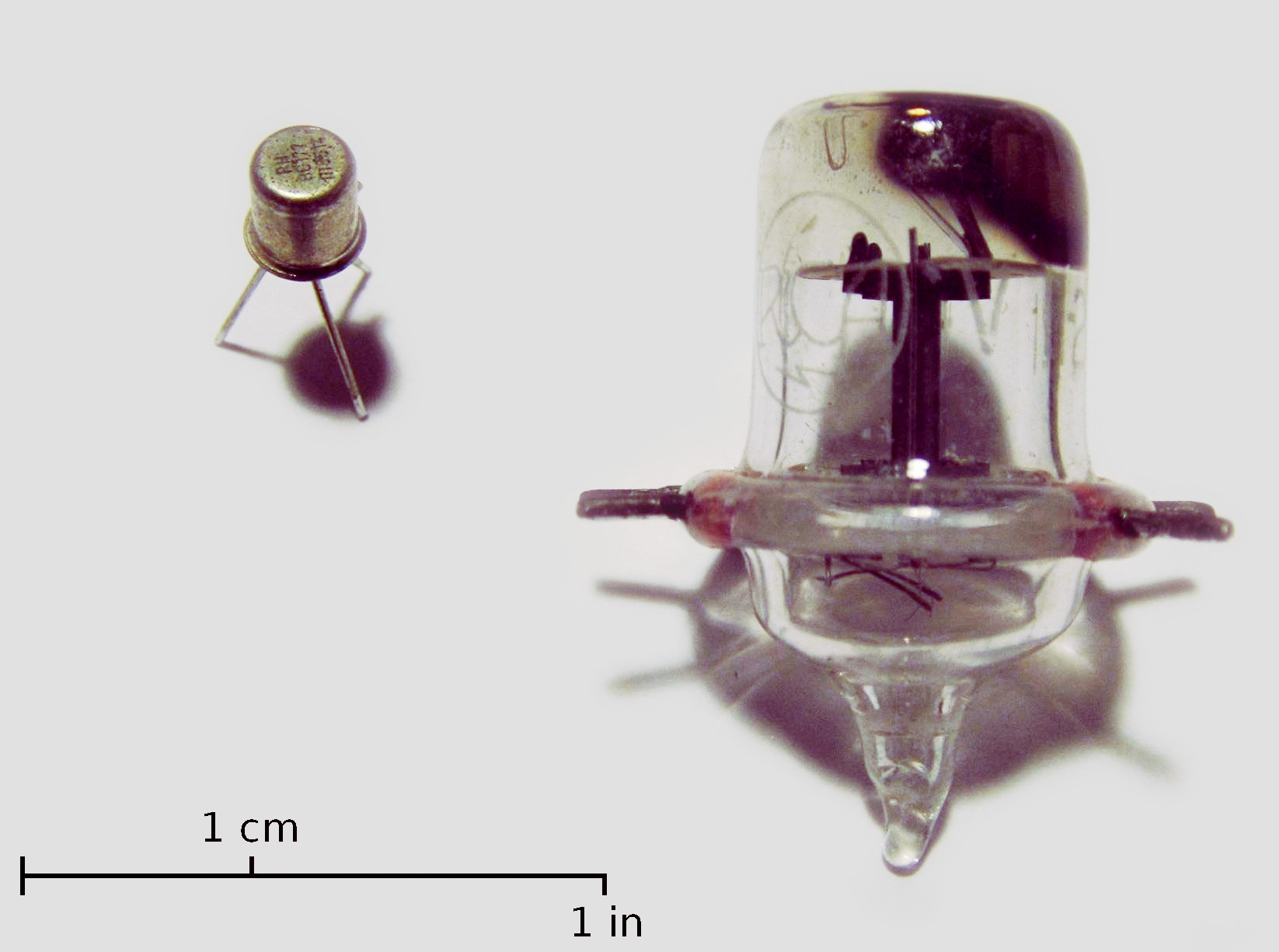 955 R.C.A. Acorn V.H.F. triode thermionic valve/electron tube, with TO-72 transistor for comparison, 188KB.